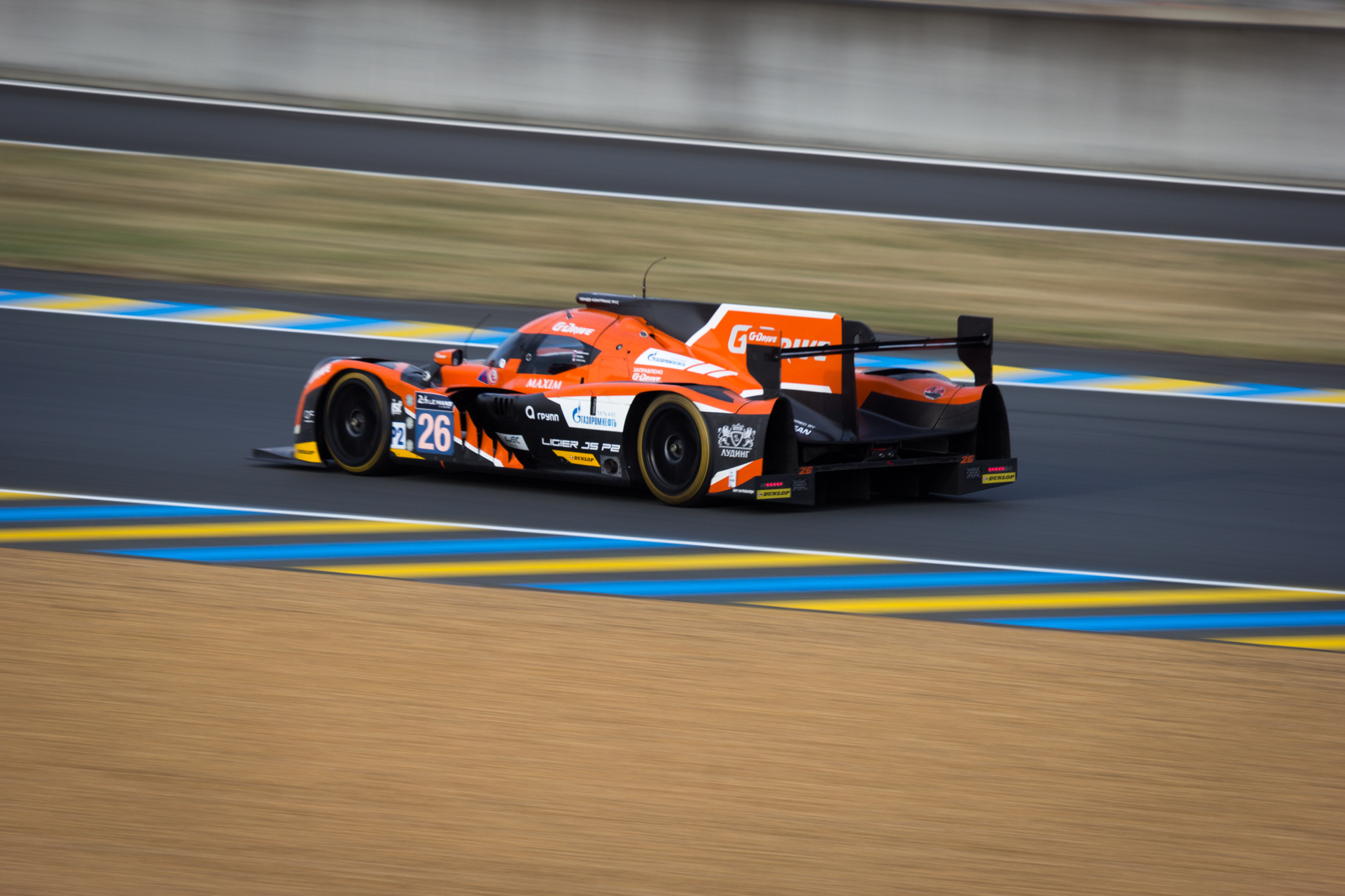 Drivers: Roman Rusinov, Julien Canal, Sam Bird